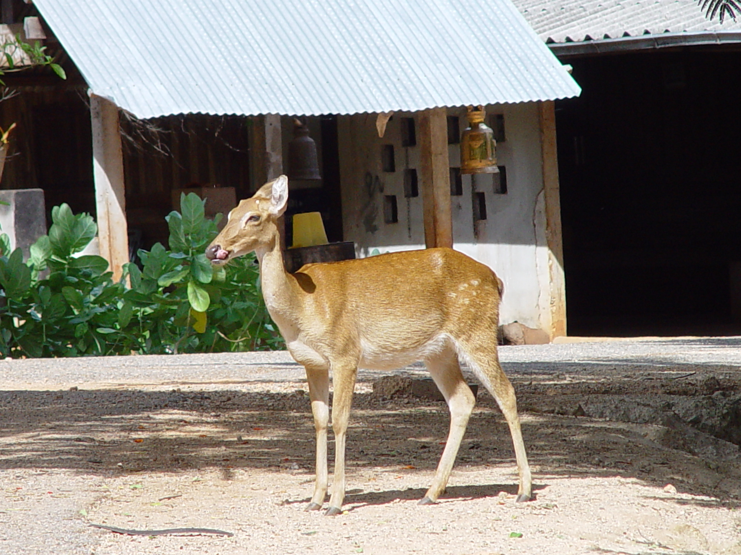 Deer in the Tiger Temple, Thailand I have taken this photo myself in mid 2004 with my own Sony DSC-707. See EXIF record for details